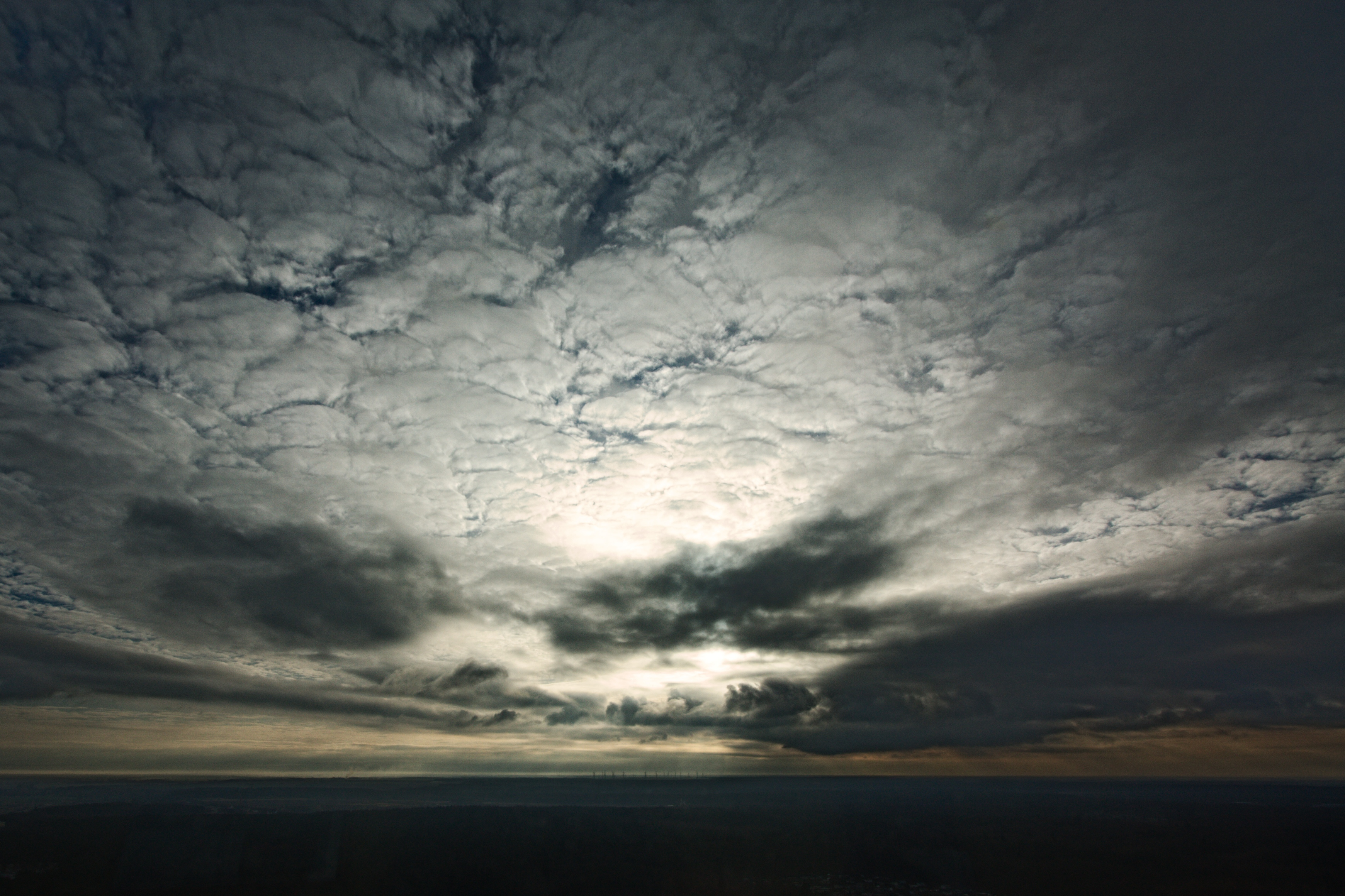 Clouds